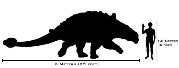 Size comparison between the ankylosaur Euoplocephalus and a human